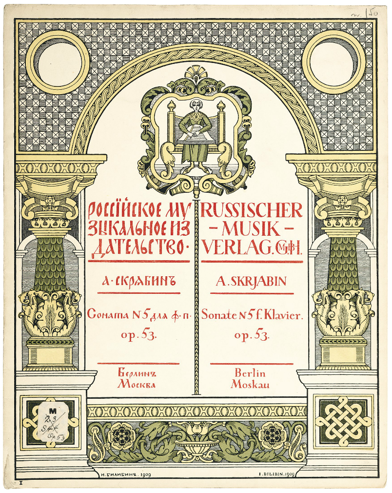 Cover of one of the first editions of Scriabin's Sonata No.5. Publisher: Russische Musikverlag. 1910/13